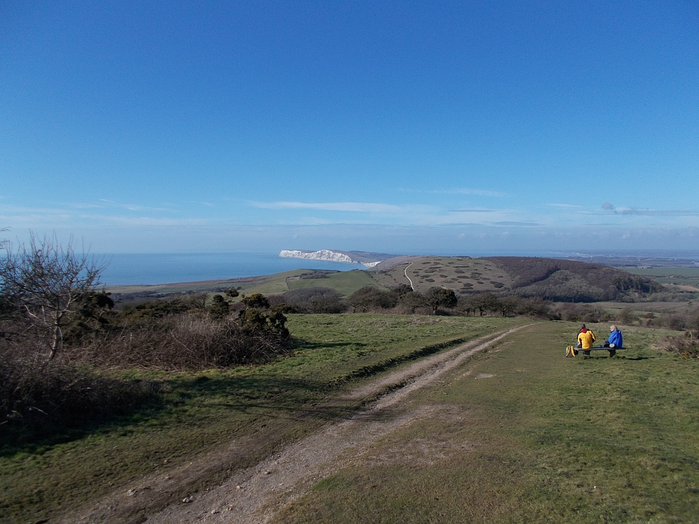 View west from Mottisone Down, Isle of Wight, UK.